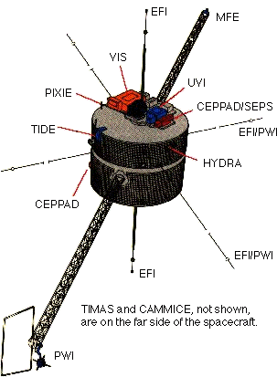 Diagram of the Polar spacecraft and its instruments.